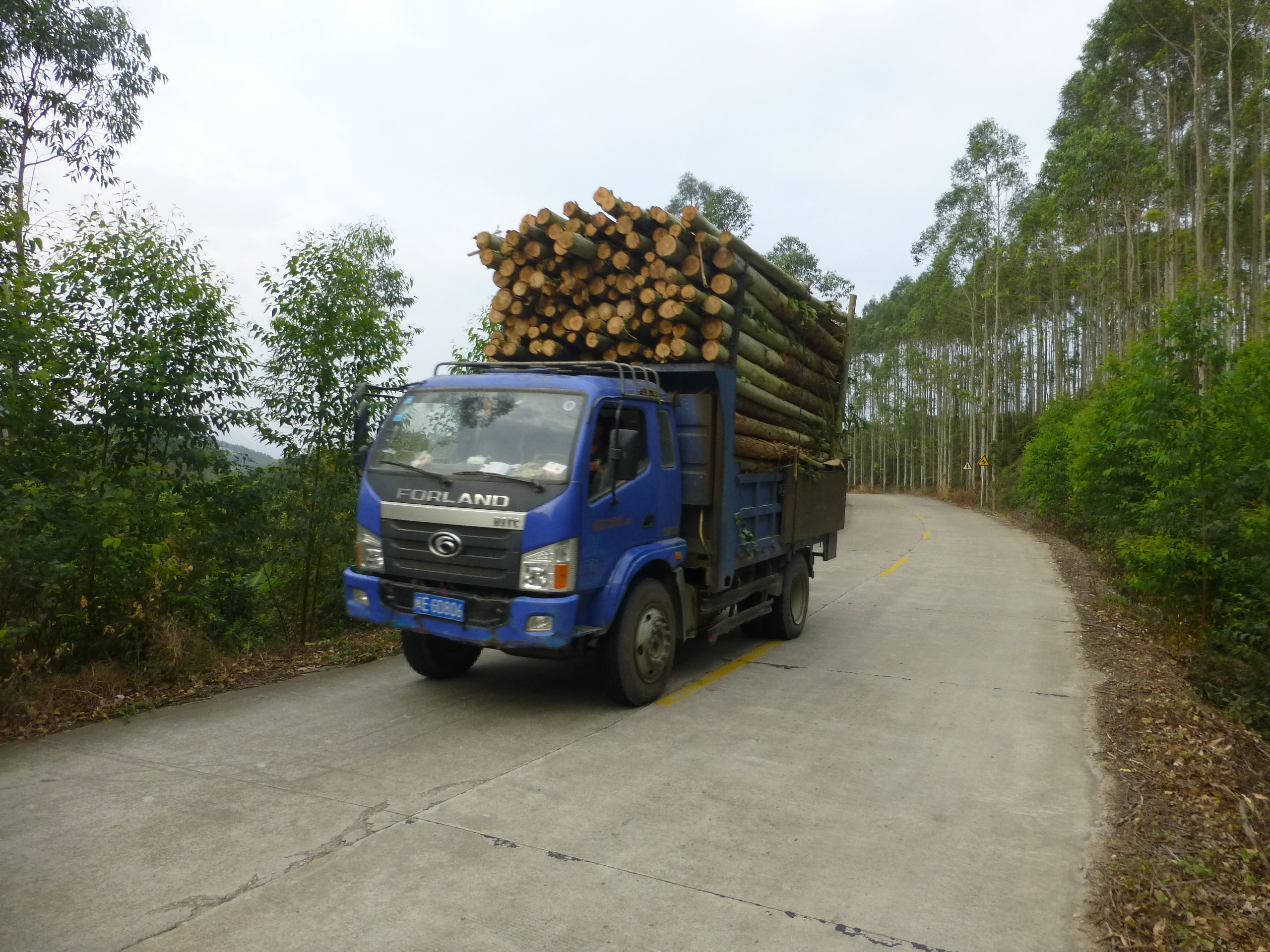 In the forested country north of Chiling She Township, Zhangpu County, Fujian. (Along Hwy X519)